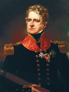 Portrait of Admiral Sir Charles Rowley Bt